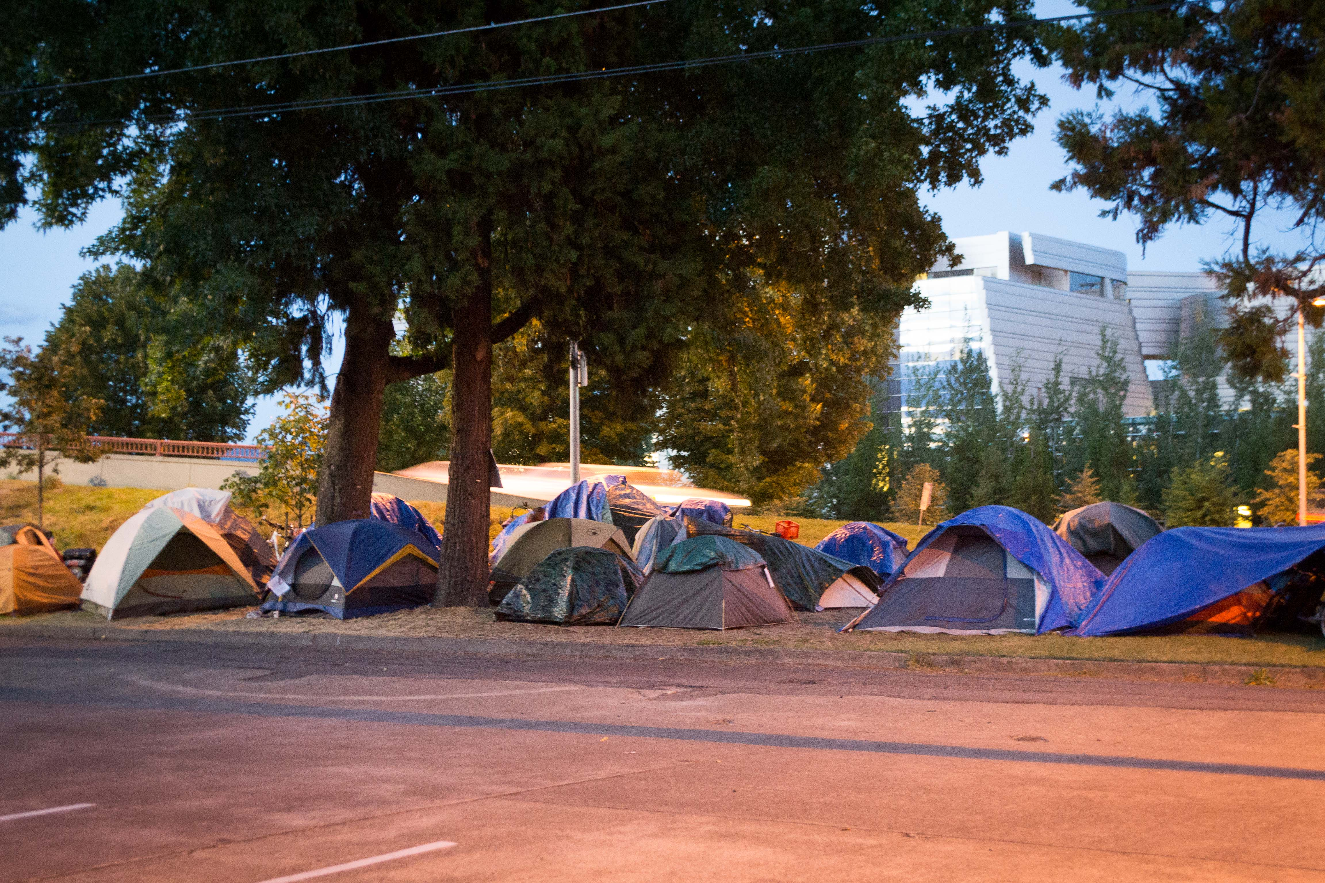 The Wayne Morse Federal Courthouse is within sight of a temporary location of the Whoville Homeless Camp in Eugene, Oregon.